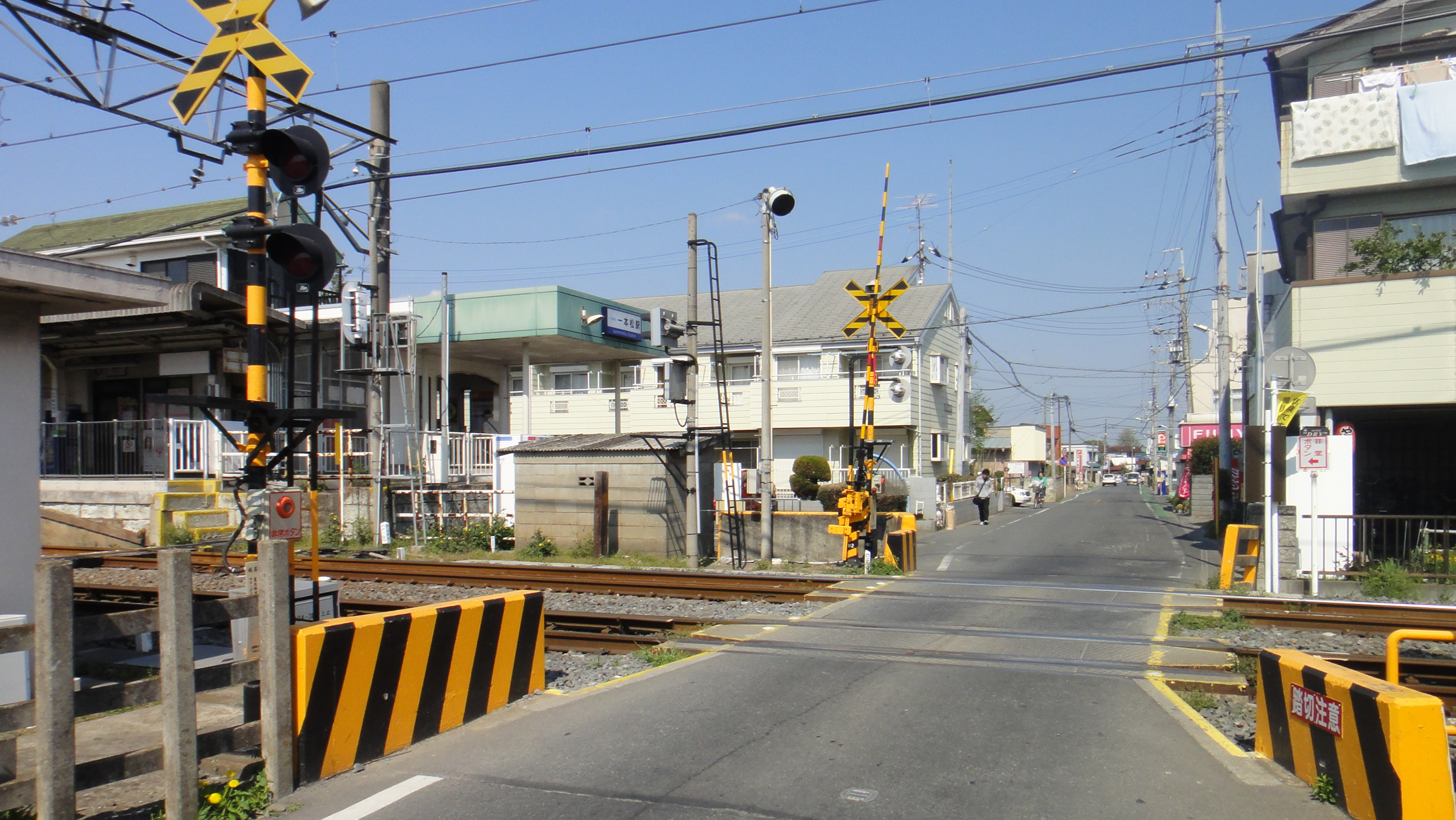 The single-lane level crossing to the east of Ippommatsu Station on the Tobu Ogose Line